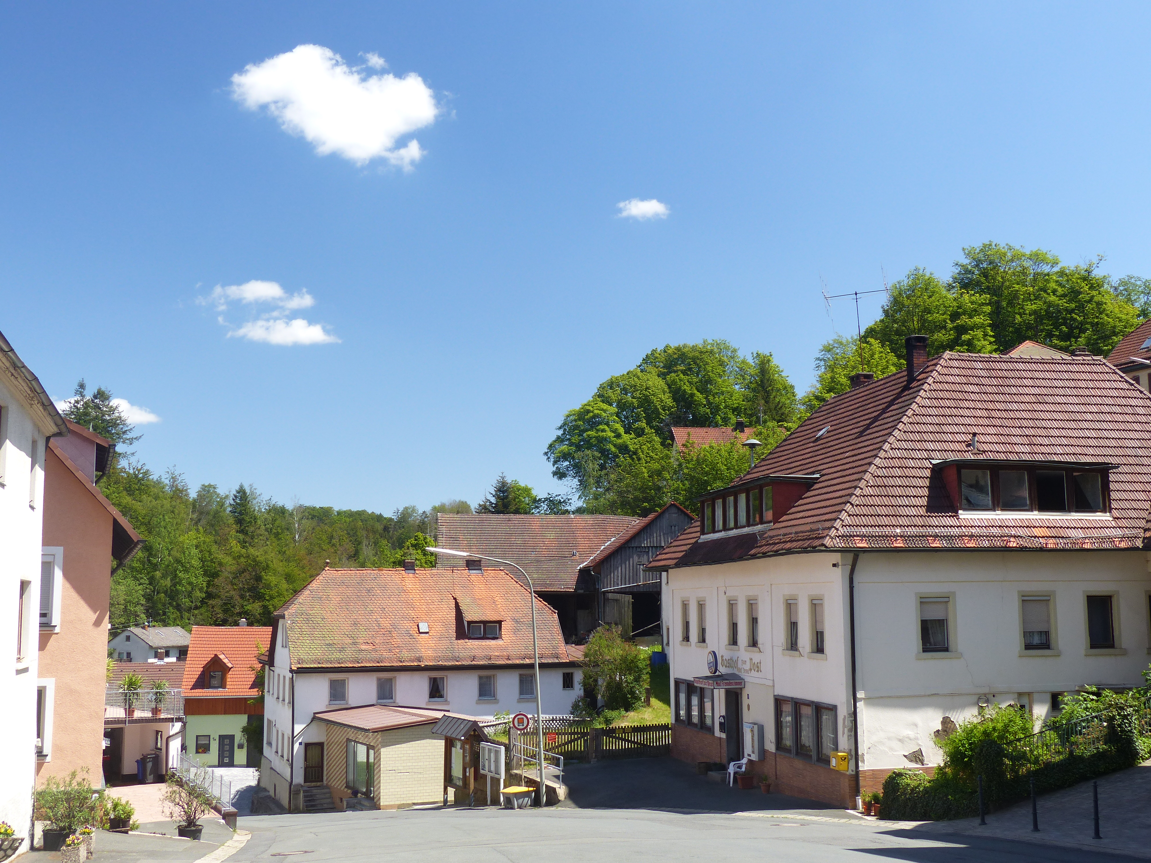 The parish village Wartenfels, a district of the municipality of Presseck.